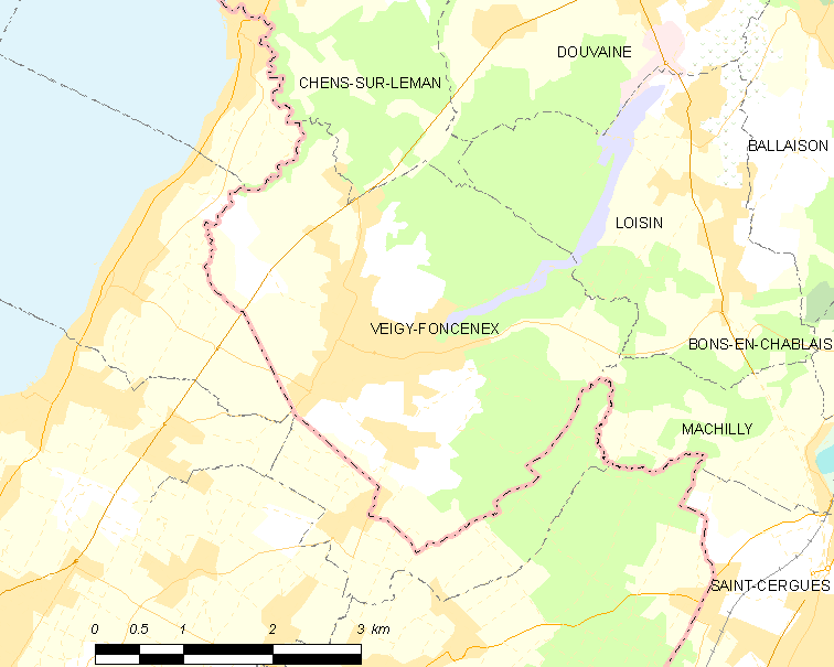 Map of French municipality Veigy-Foncenex